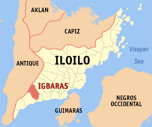 Map of Iloilo showing the location of Igbaras